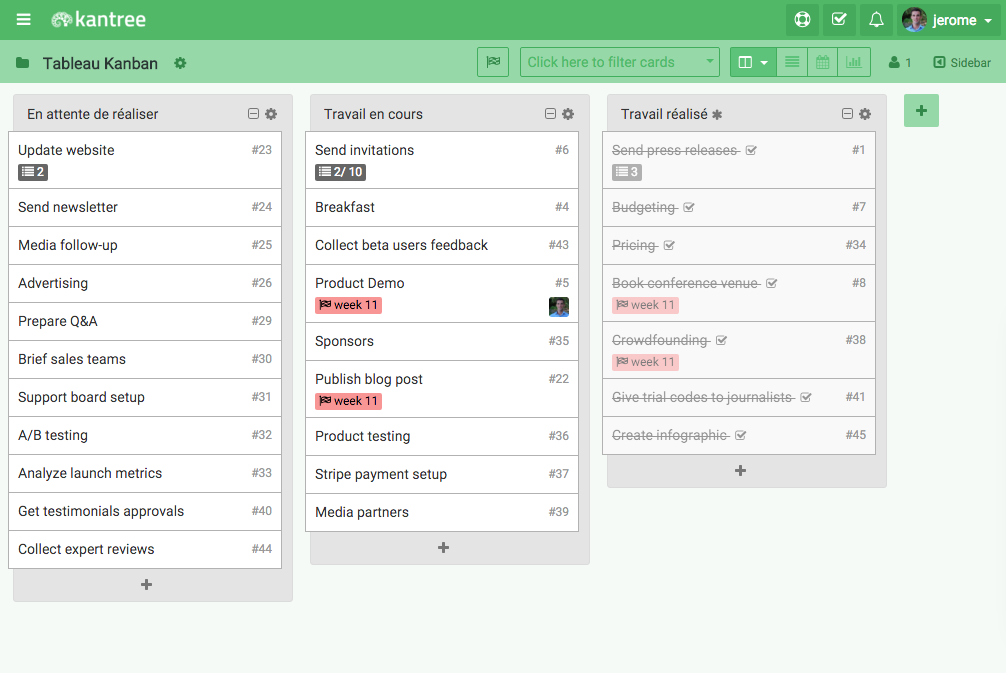 Outil numérique pour tableau kanban